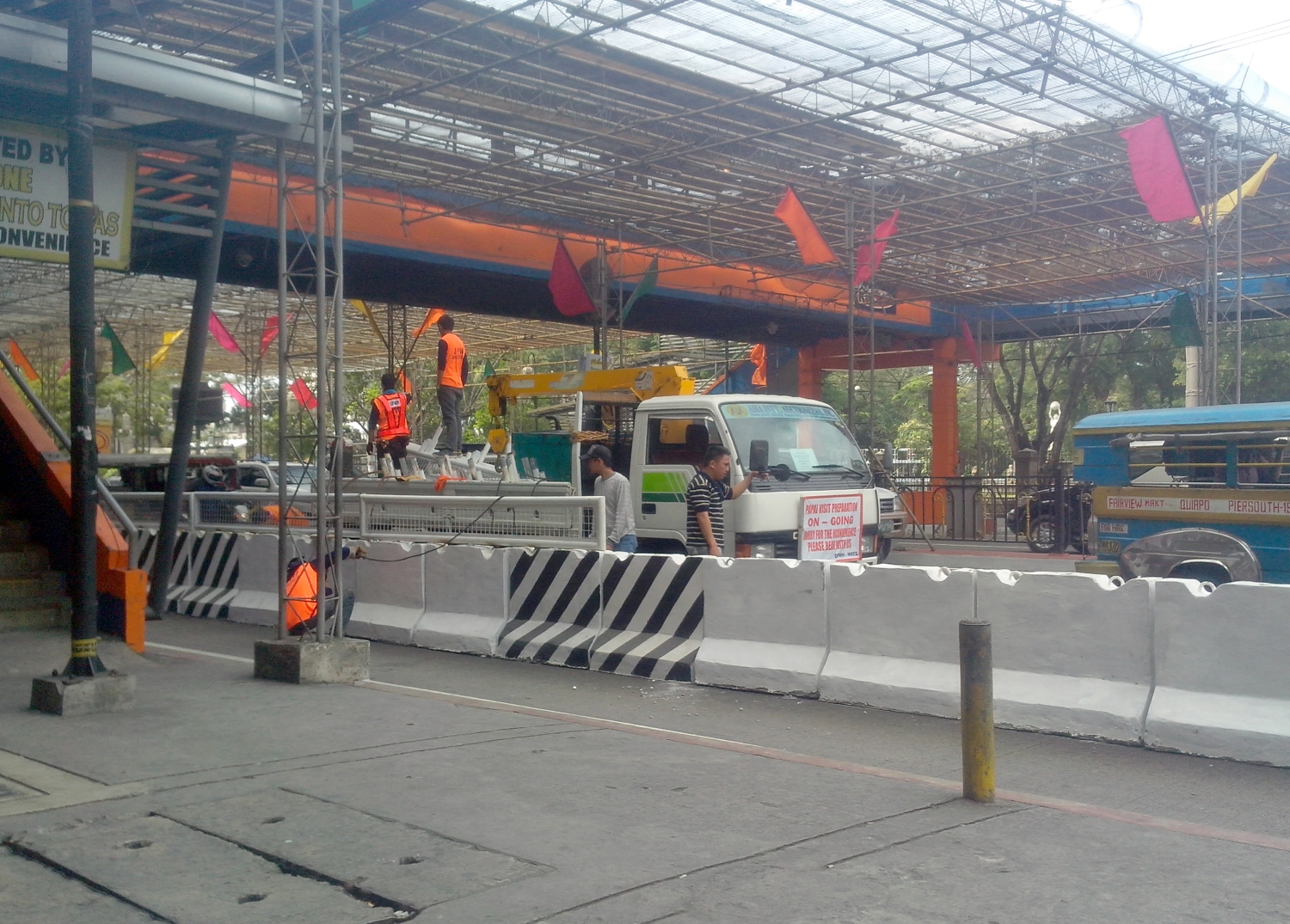 Concrete barriers being installed along España Boulevard by DPWH workers one day before Pope Francis' visit to adjacent University of Santo Tomas